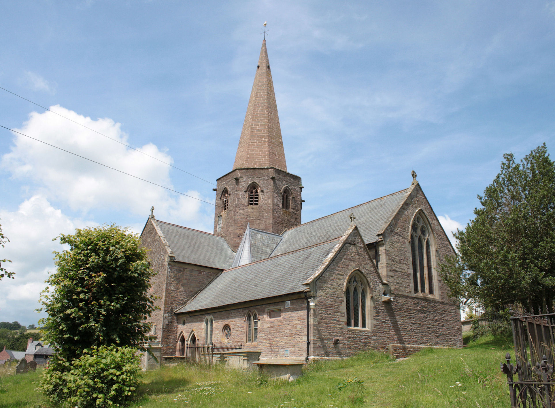 The Church of St Nicolas, Grosmont